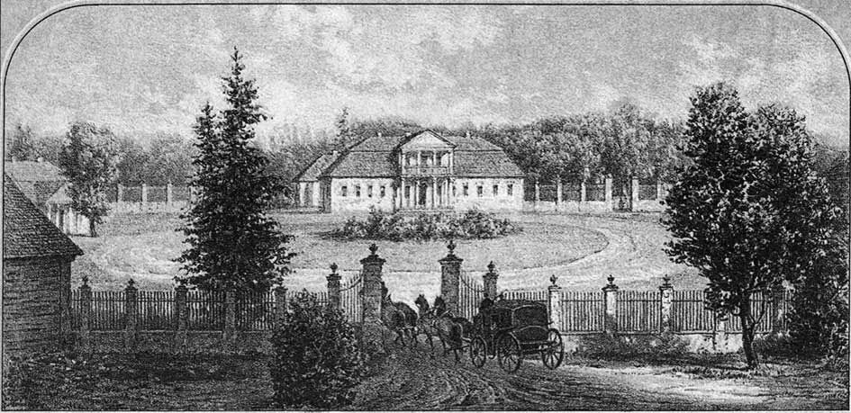 Orda's estate in village Varatsevichy, Ivanauski area, Brest district. Second half of XVIII century. Not remained. Lithograph 1860.